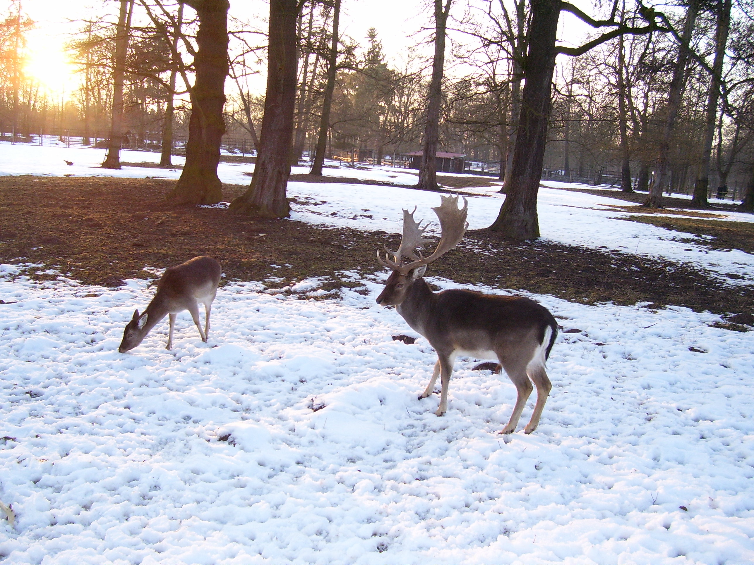 Male and female Dama dama pic. self made by J C D 18:09, 26 March 2006 (UTC)